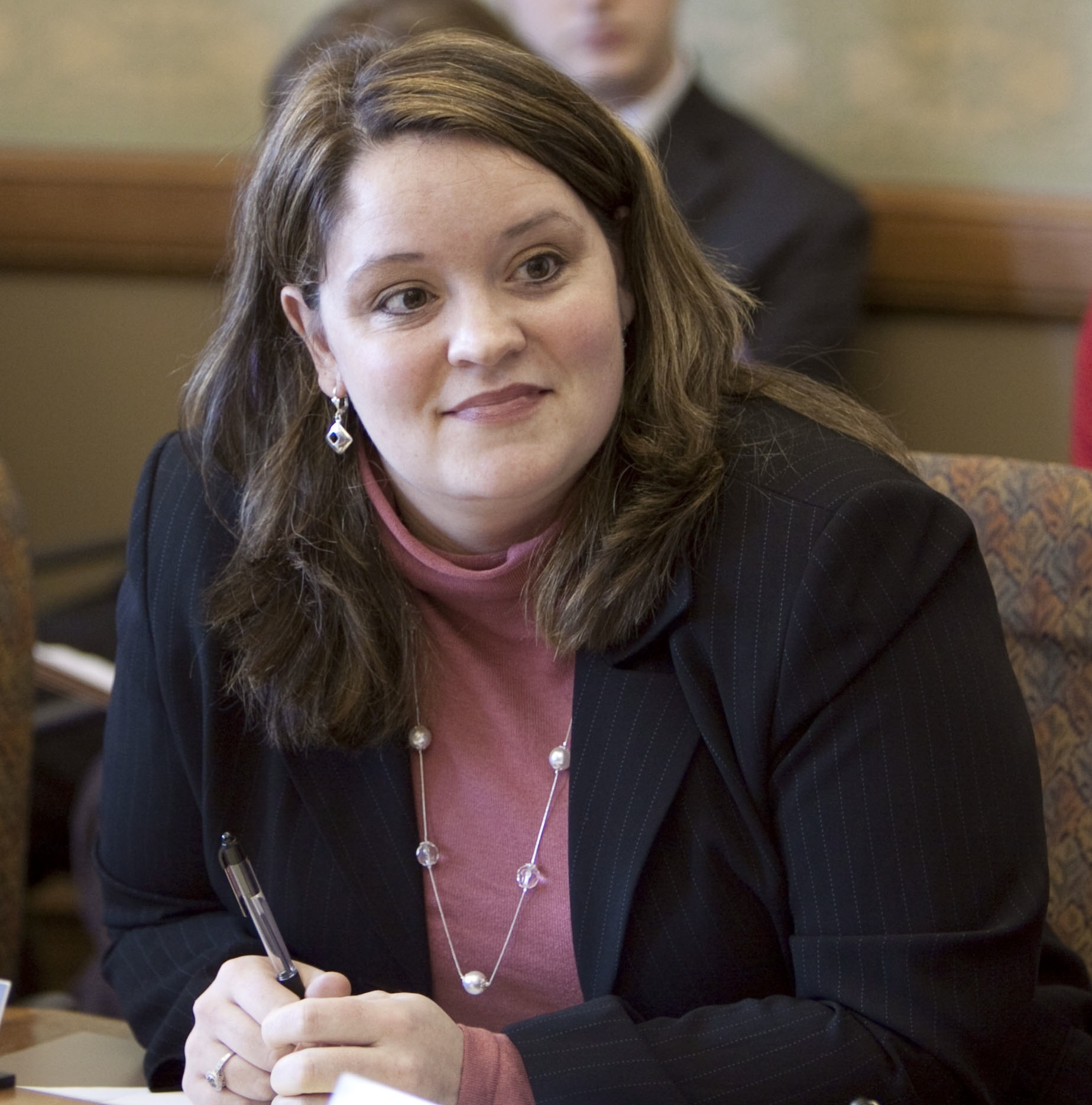 Wisconsin State Assemblywoman Amy Sue Vruwink.